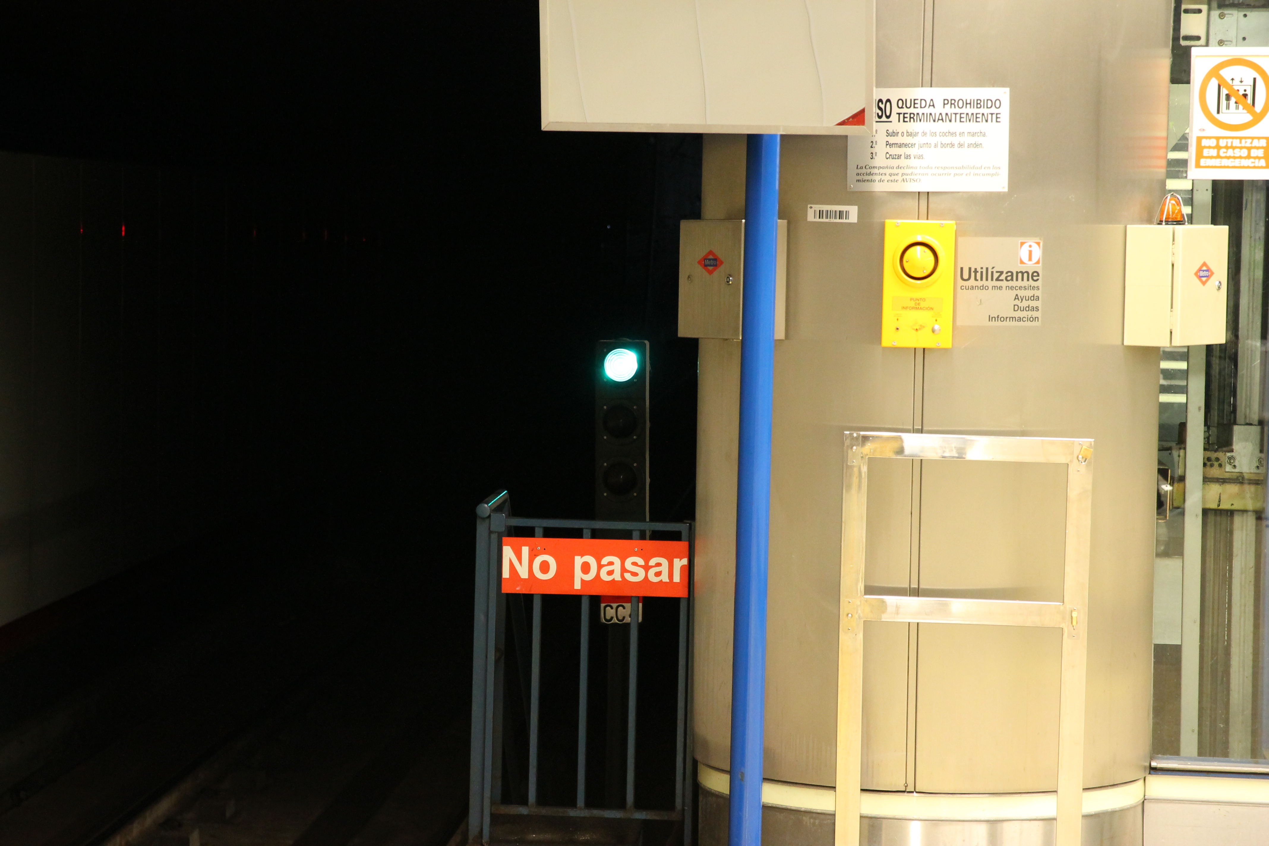 Casa de Campo metro station, Madrid